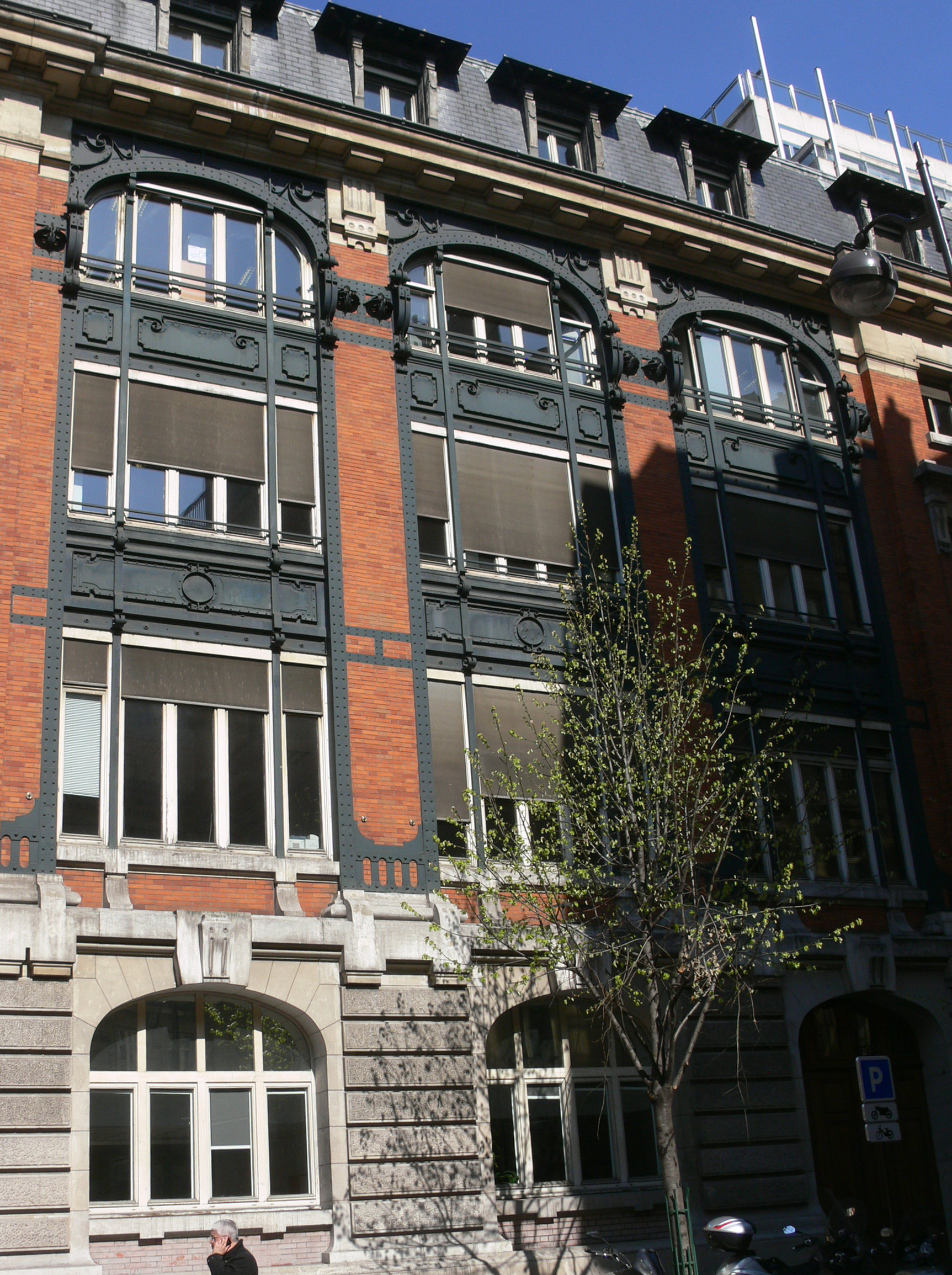 Annexe of the Crédit Lyonnais HQ ; 6 rue Ménars ; 2nd arrondissement, Paris